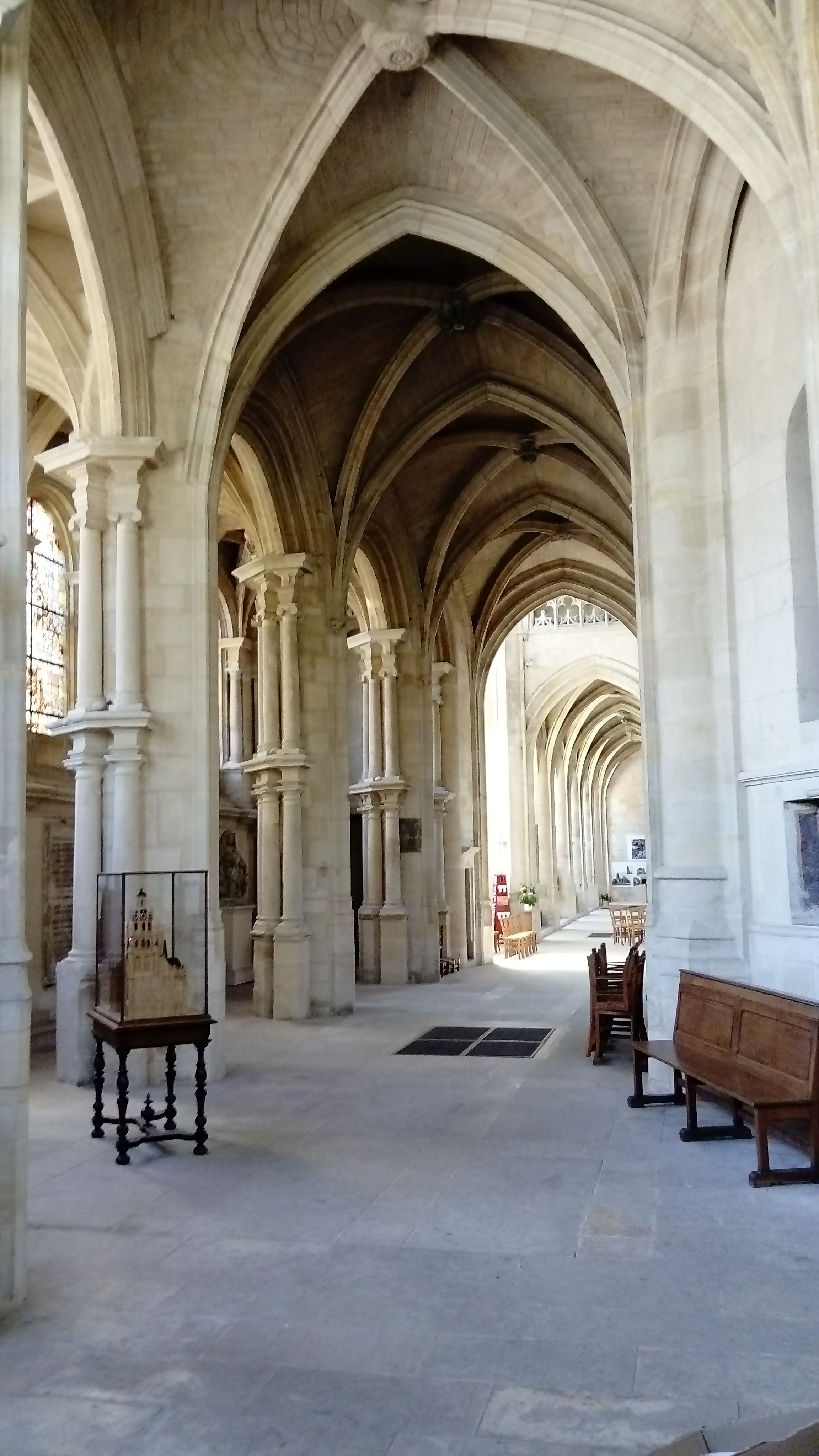 Inside view of Saint-Germain's gothic church in the Norman town of Argentan, in France.